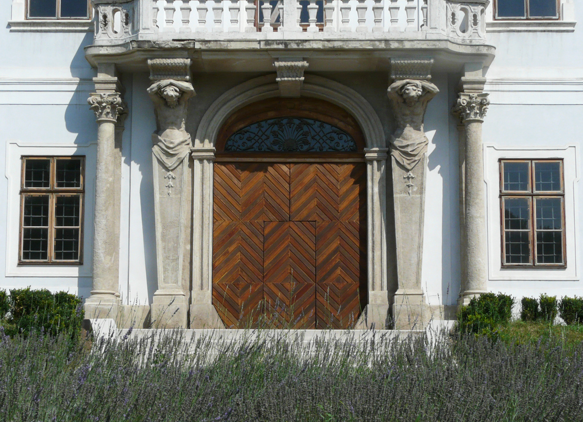 Hatvan (Hungary)